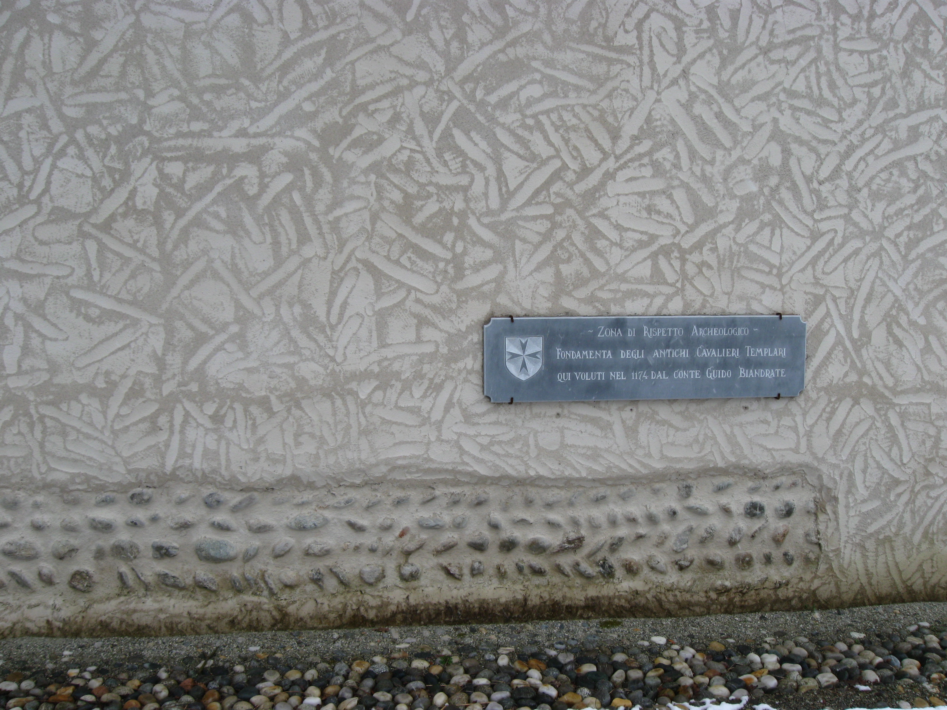 the church of San Giacomo of Ruspaglia, north side